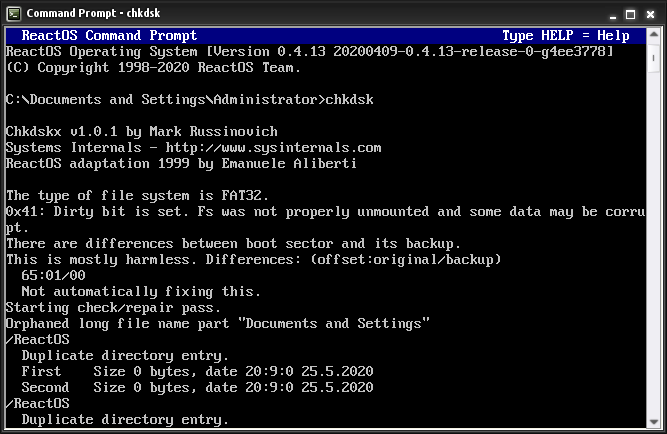 chkdsk command on ReactOS-0.4.13